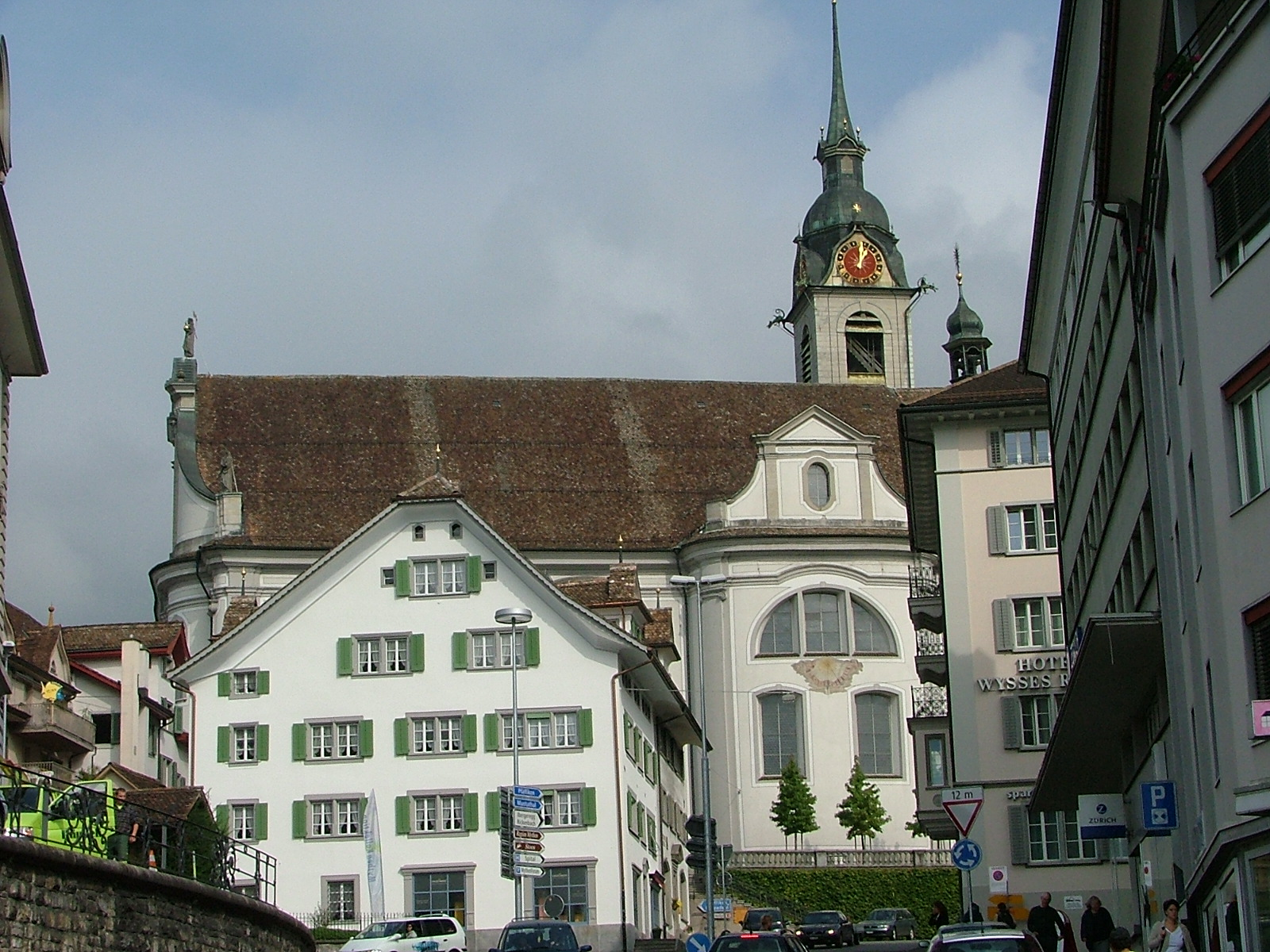 Church of St. Martin in downtown Schwyz, Switzerland.